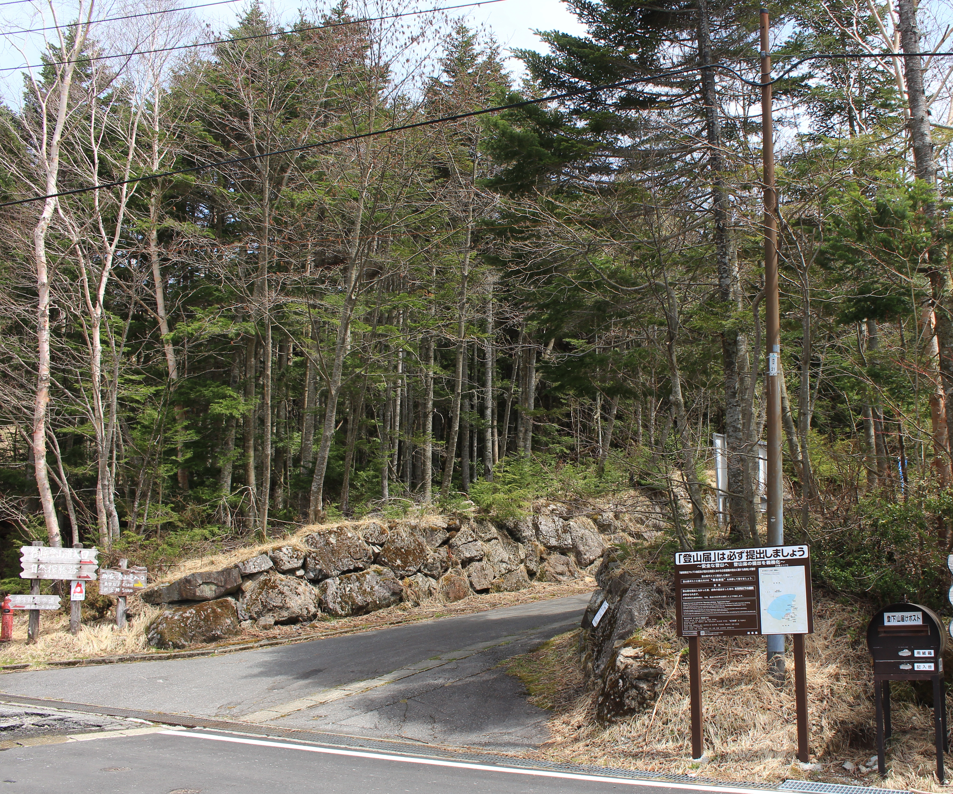 Post of Mountaineering for Mount Ontake in Nigorigo-onsen, Gero, Gifu prefecture, Japan.